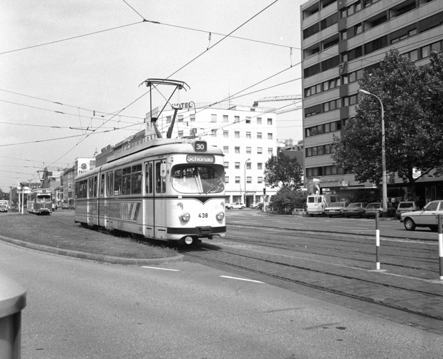 Local tram on Kaiserring, Mannheim